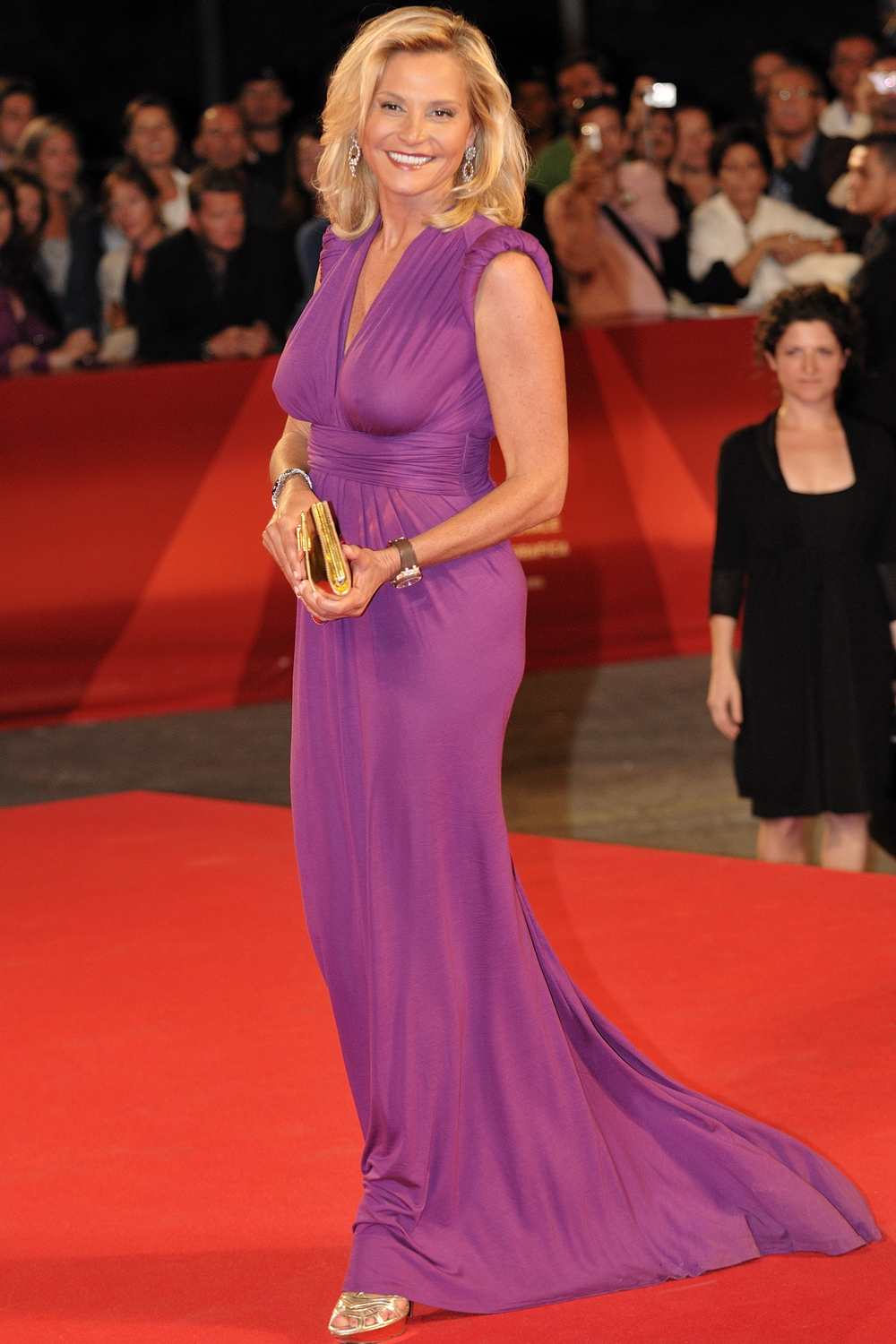 TV presenter Simona Ventura at the premiere of Capitalism: A Love Story